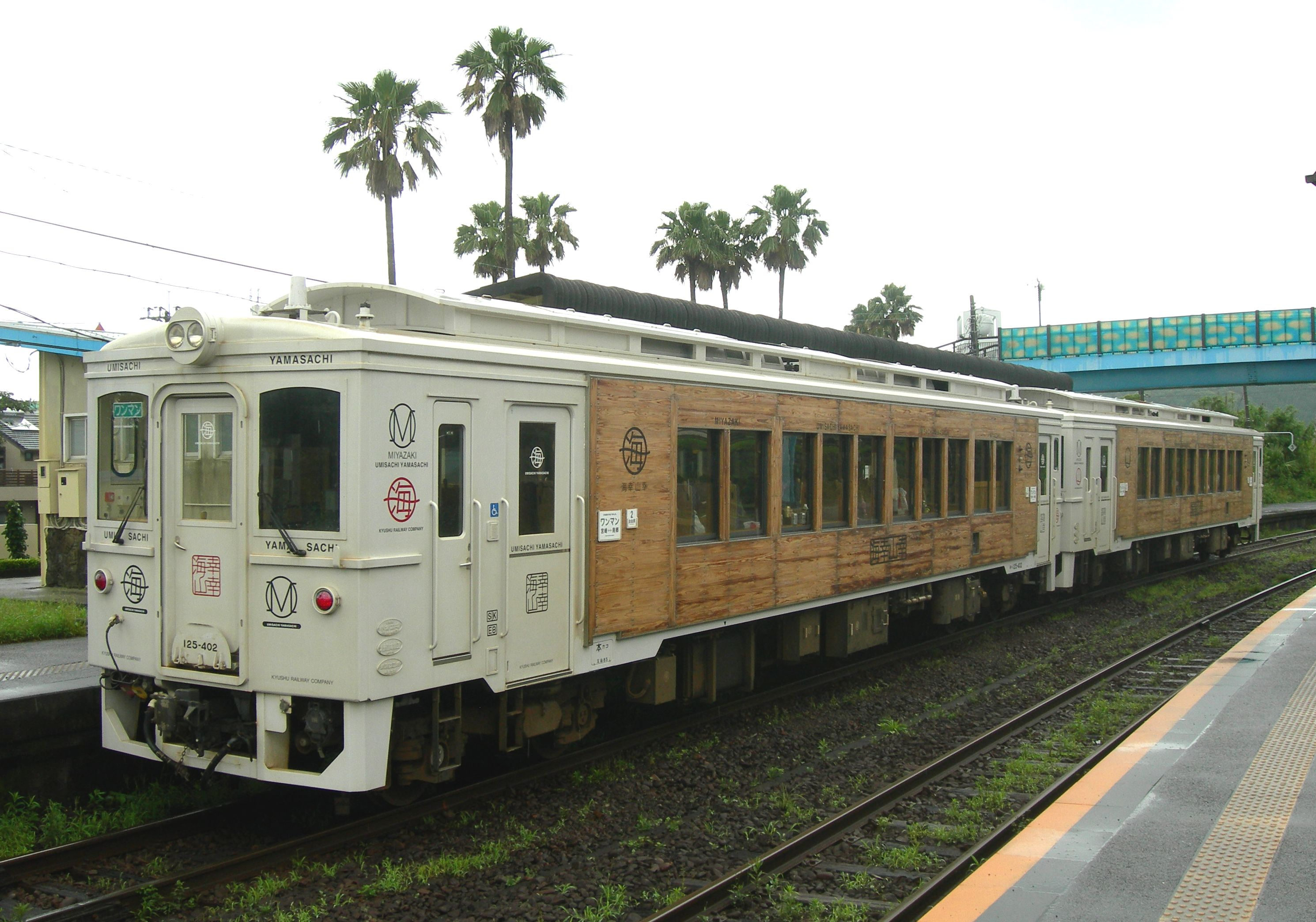 JR Kyushu KiHa 125-400 series Umisachi Yamasachi tourist train at Aoshima Station